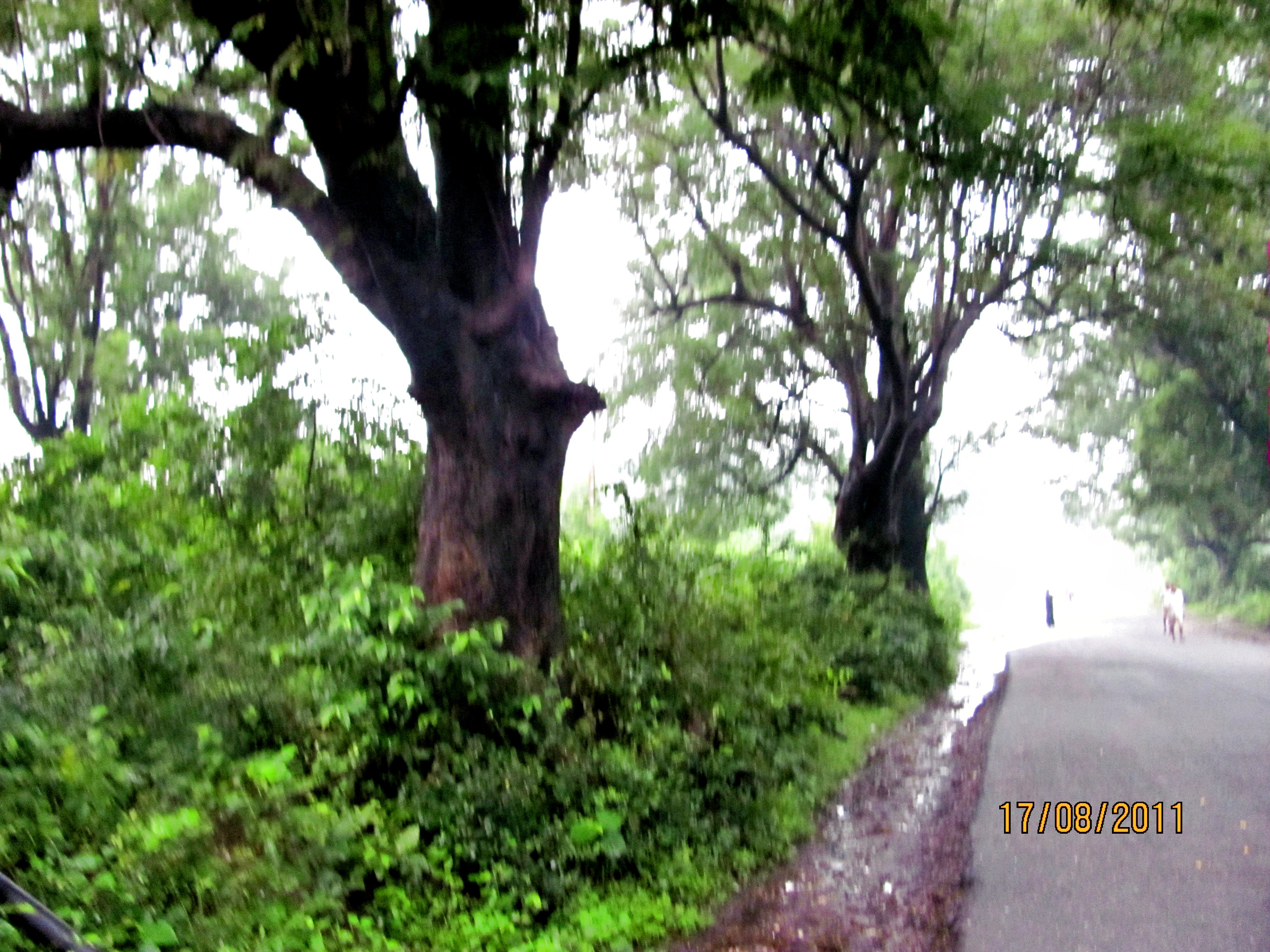 It is a part of Rajganj-Katras Road after the first railway crossing after Durga Talkies mod.